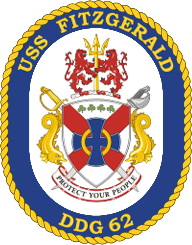 Emblem of the USS Fitzgerald (DDG-62)